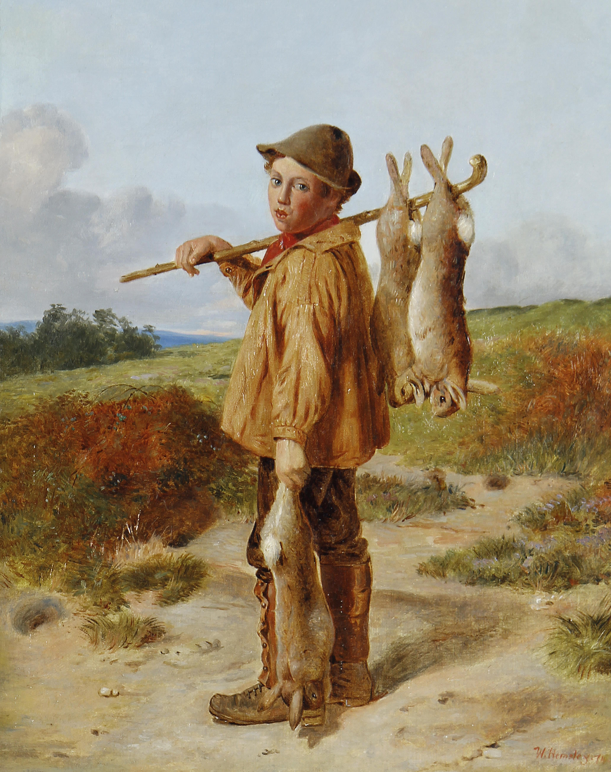 The young poacher. Signed and dated W. Hemsley.74. Oil on canvas, 43.5 x 33.5 cm